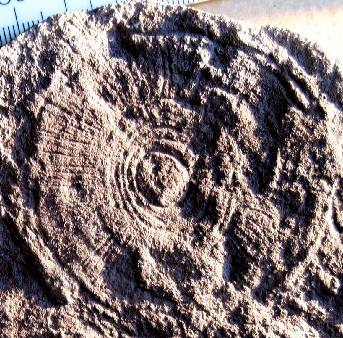 Image:Cyclomedusa_cropped.JPG|thumb|left|Cyclomedusa, a disc shaped fossil that has been interpreted as a microbial artefact. This image has been digitally enhanced to create the one on this page, for the Ediacaran biota rewrite.